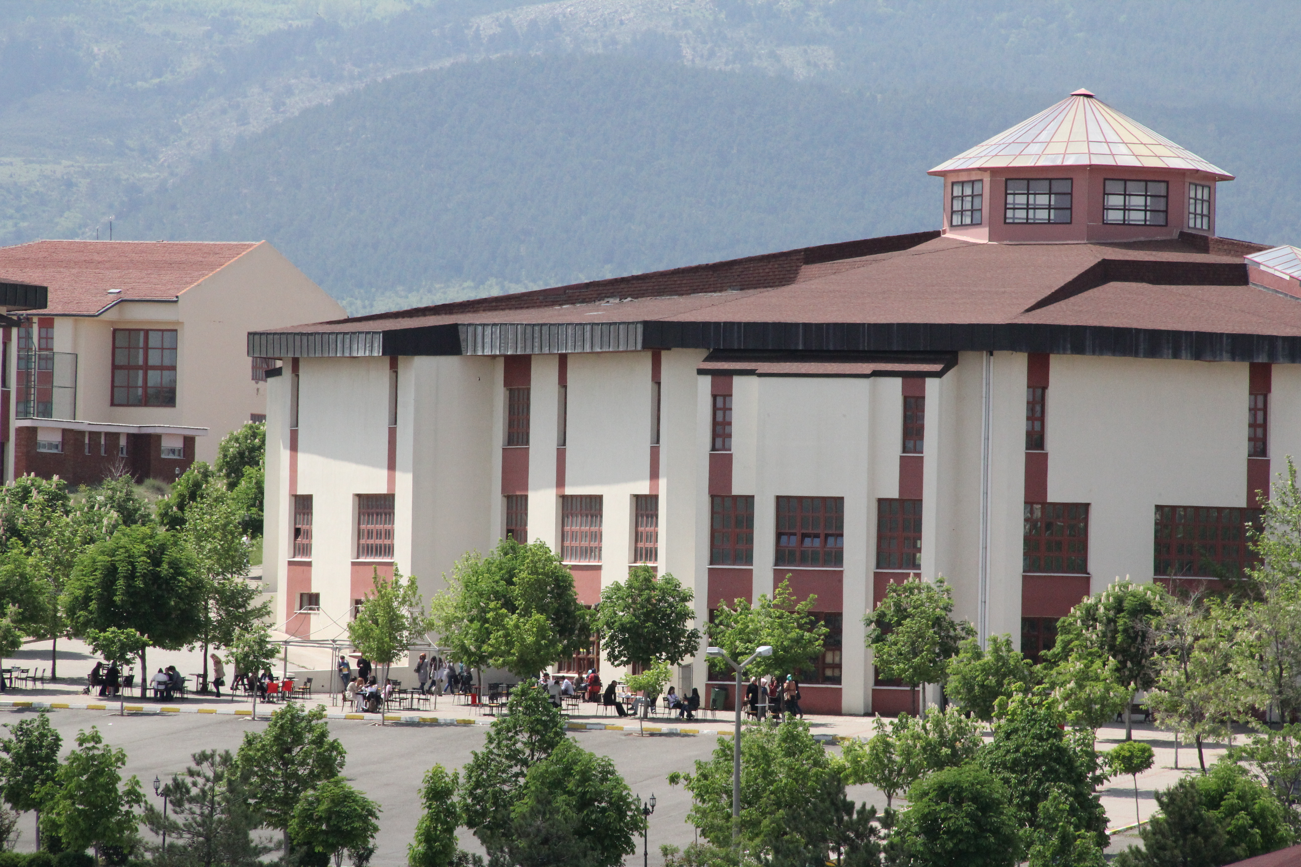 Faculty of Economics and Administrative Sciences in Evliya Çelebi Campus of Kütahya Dumlupınar University